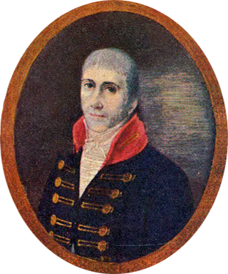 Dr. Bernardino Antonio Gomes (1768 - 1823) His life and his work